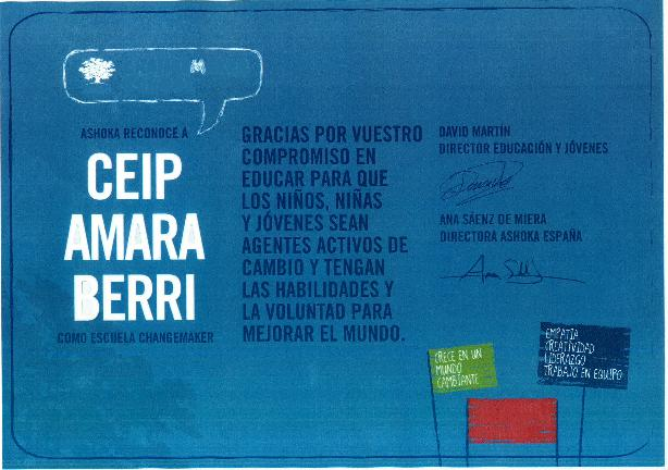 Ashoka Changemaker School ziurtagiria - Amara Berri eskola publikoa